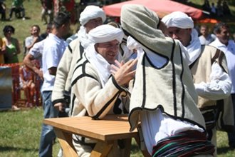 Permission=by virtue of Article 12.1 of Republic of Kosovo Law No. 04/L-065 on Copyright and Related Rights of 2011 works of public bodies are in the public domain This work is in the public domain because it is a law, rule, regulation or official material of a Republic of Kosovo state body or a body performing public functions, under the terms of Article 12 of Kosovar copyright law. See Copyright. A source should be included so that the status can be verified. English | Arabic | +/−